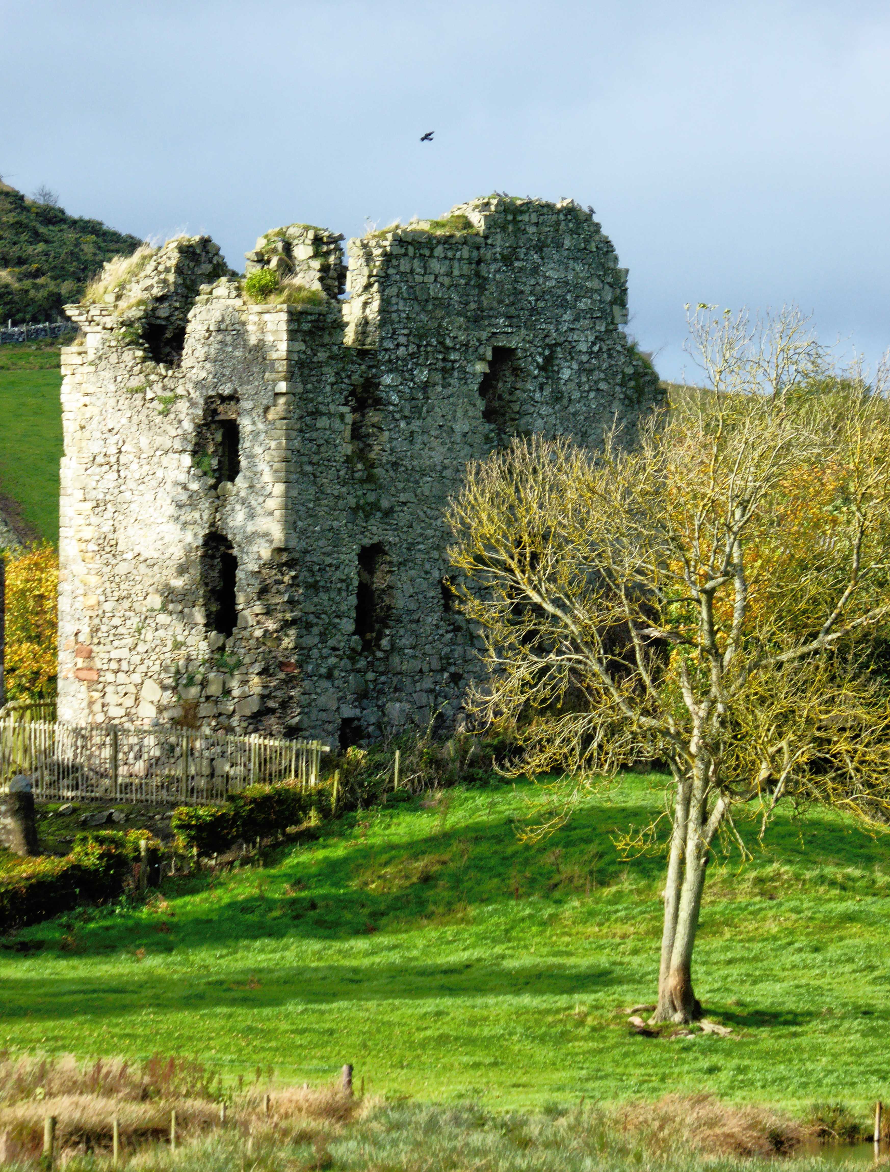 Creich Castle